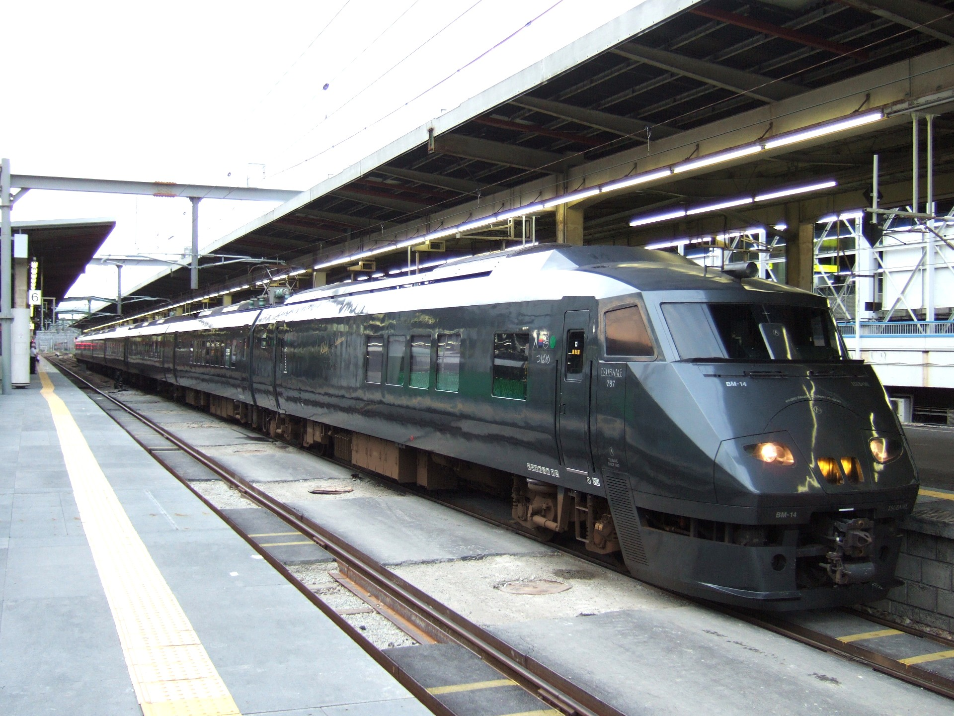 JRKyushu Ltd.Exp. "Relay-Tsubame"